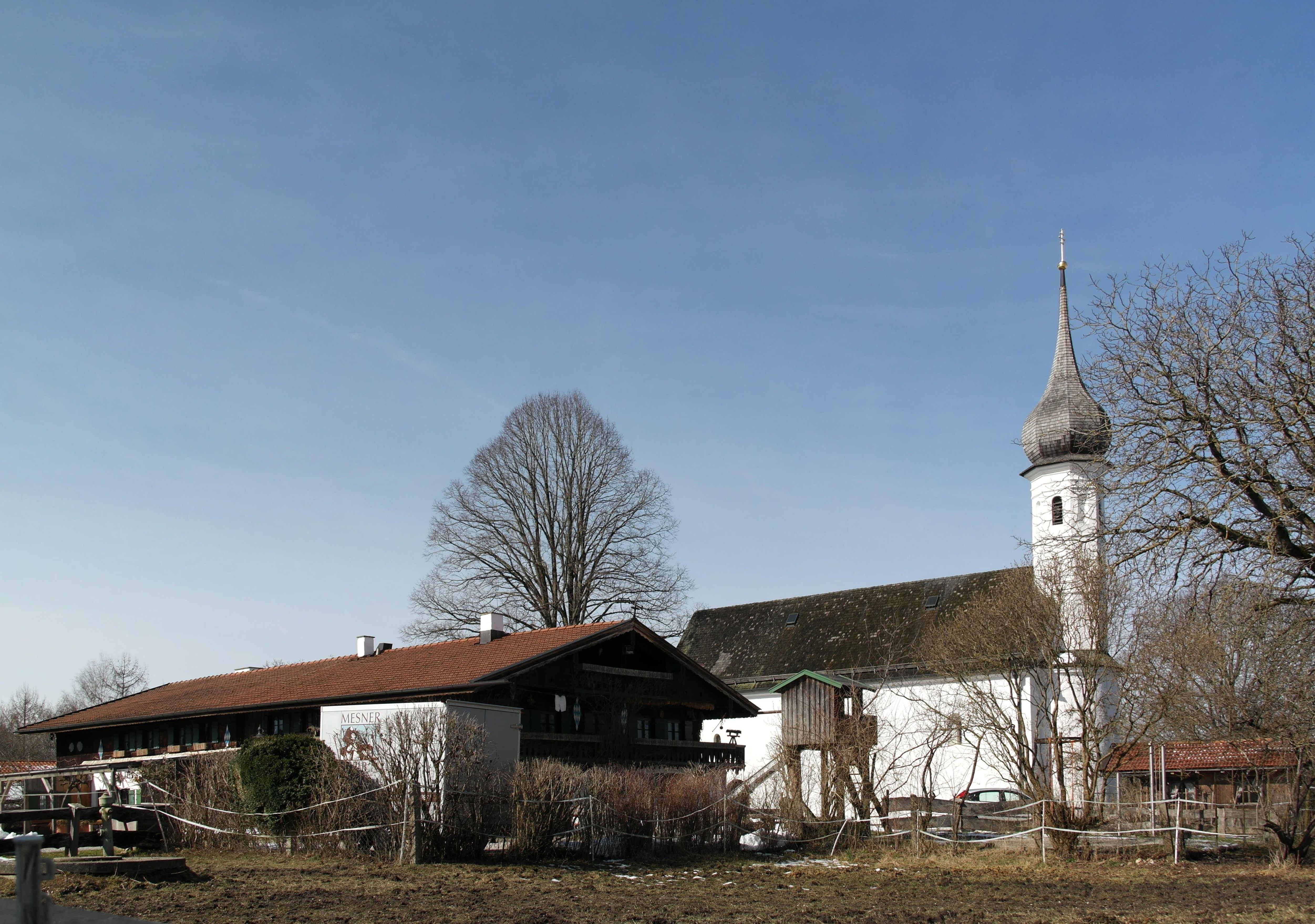 Church in Urschalling viewed from the South